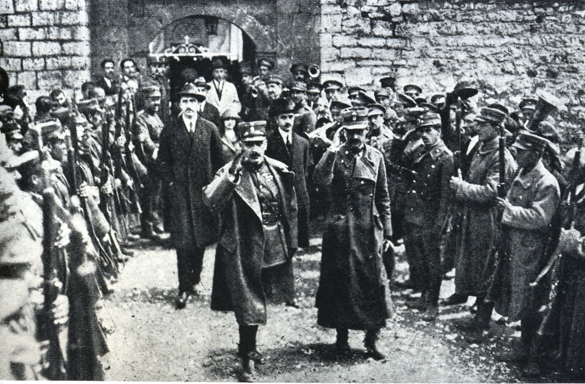 The leadership of the 1922 coup, after the Greek defeat in Asia Minor (Greco-Tukirch War 1919-1922), in front: Colonels Plastiras (right), Gonatas (center) and its political advisor of the coup: George Papandreou senior (left), during a visit in the birthplace of Athanasios Diakos, Mousounitsa.